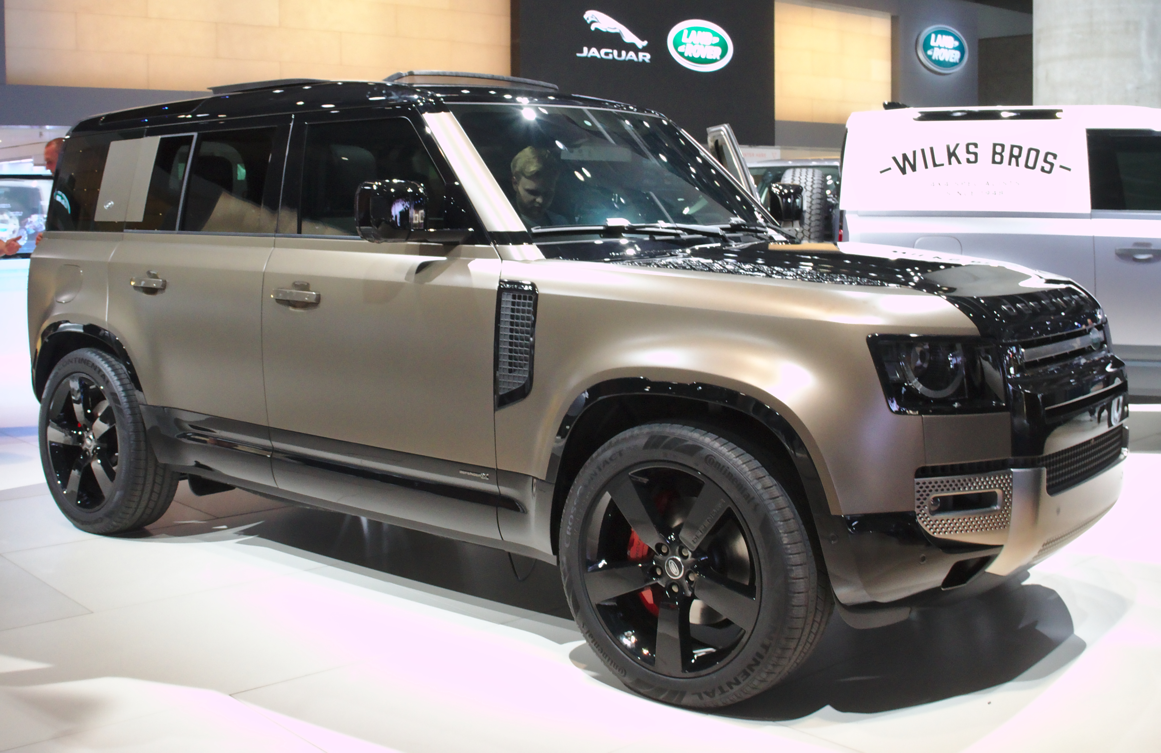 Land_Rover_Defender at IAA 2019